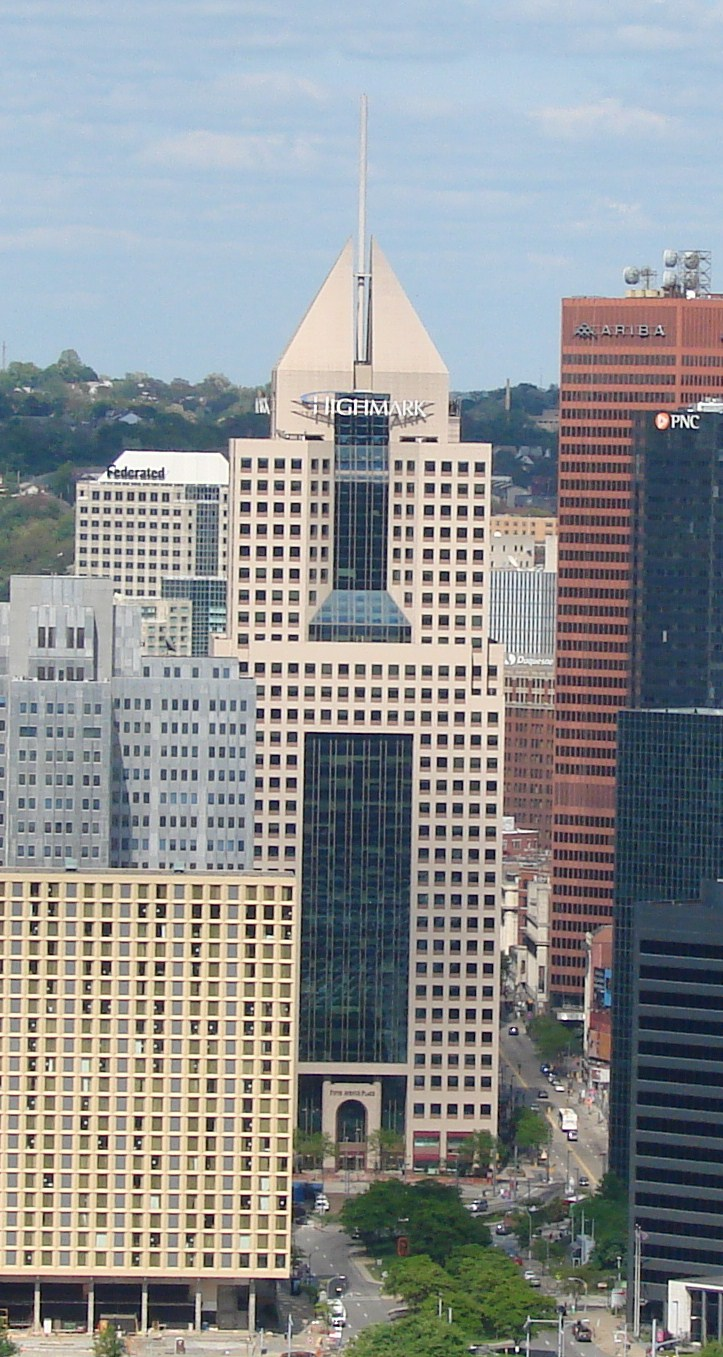 Fifth Avenue Place (Pittsburgh).